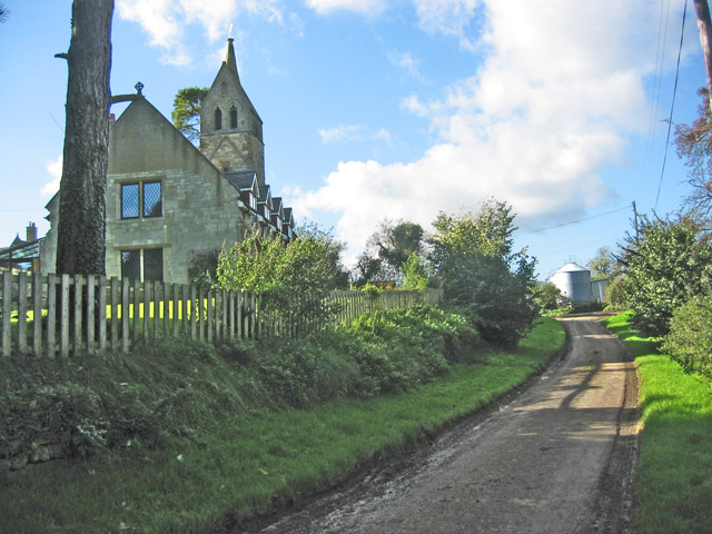 View west along Main Street, Brentingby, Leicestreshire, with the former parish church of St Mary on the left